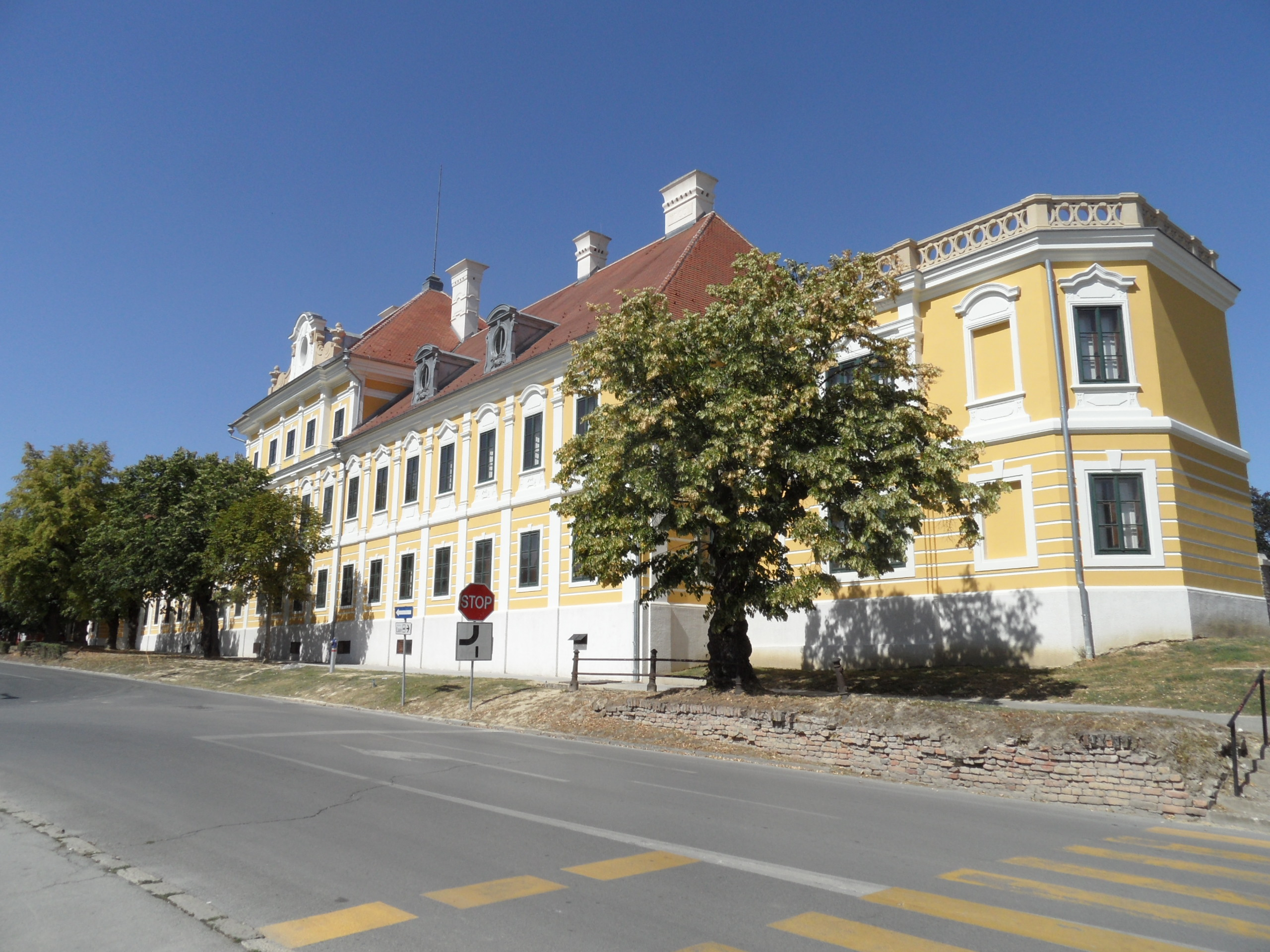 Vukovar, Croatia, Town museum